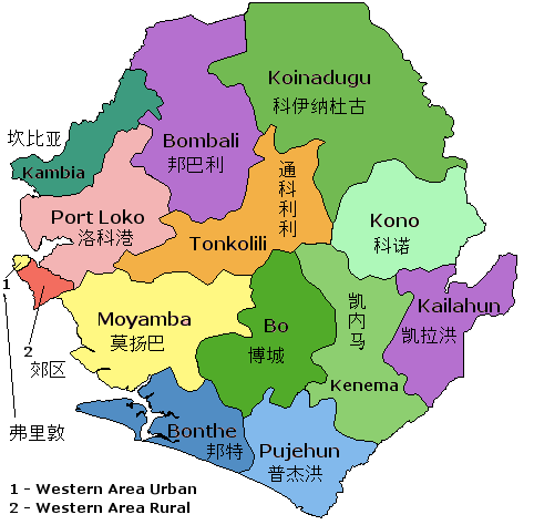 This is a map of Sierra Leone's districts, taken from Wikimedia Commons (Image:Sierra Leone Districts.png) with the Chinese province names added by me from